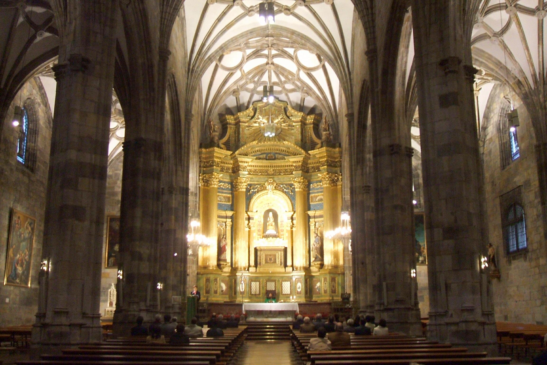 Basílica de N. S. de Begoña, Bilbao (País Vasco, España)